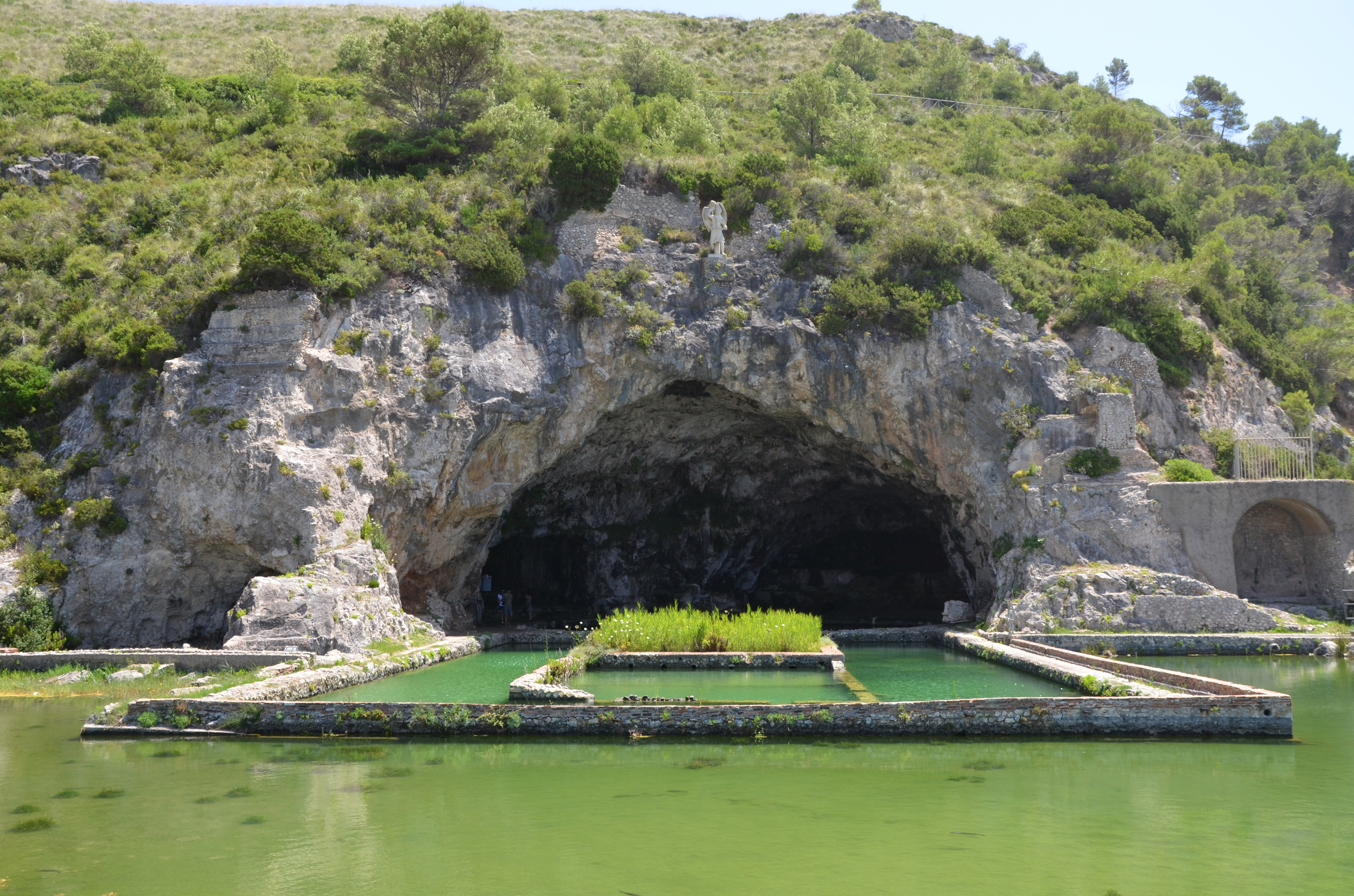 Villa of Tiberius, Sperlonga